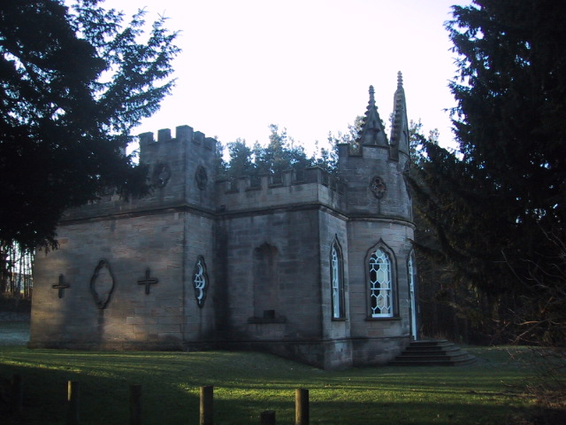 The Banqueting House, Gibside: side and front view A Landmark Trust property